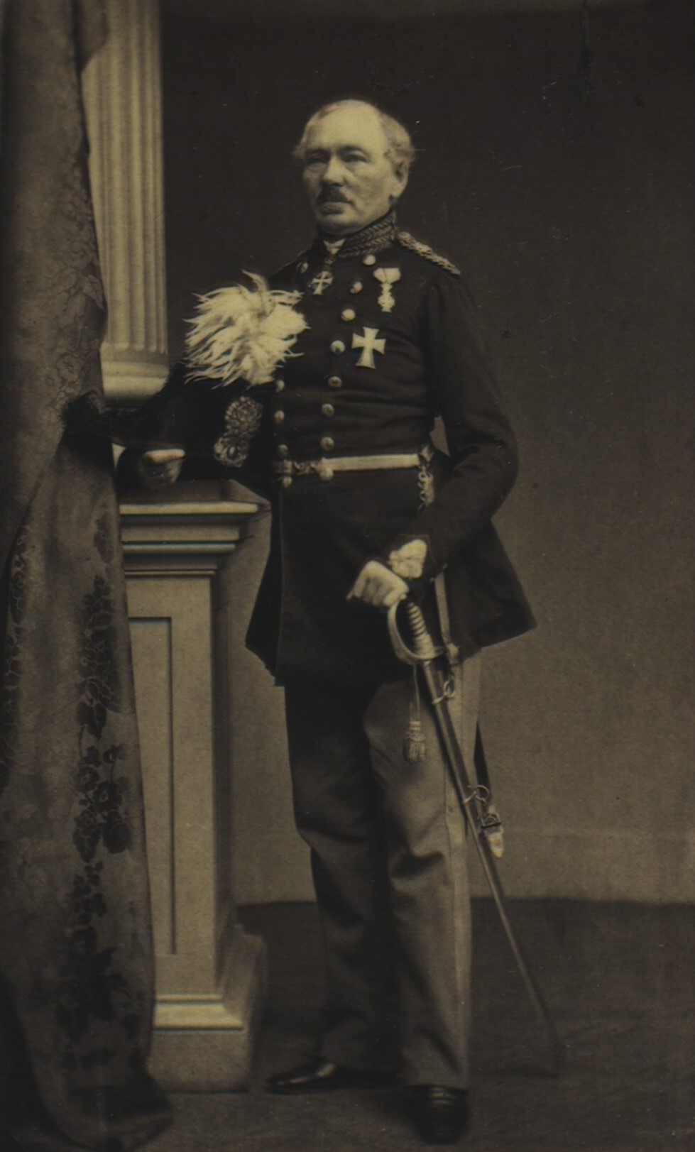 Hans Nicolai Thestrup (1794-1875), Danish Army Lieutenant General and Minister of War